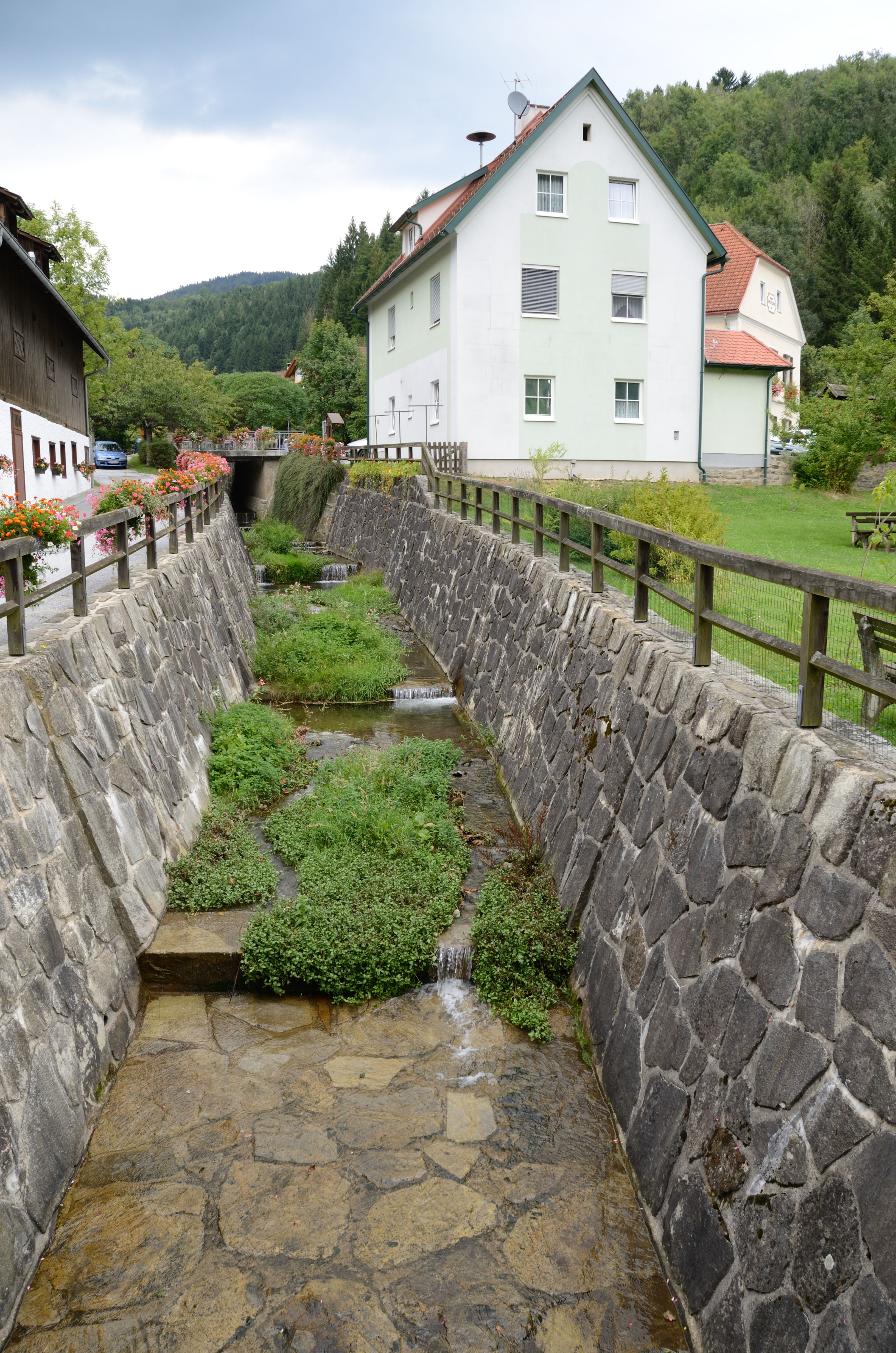 The creek Ledererbach traverses Mönichwald and ends into river Feistritz.